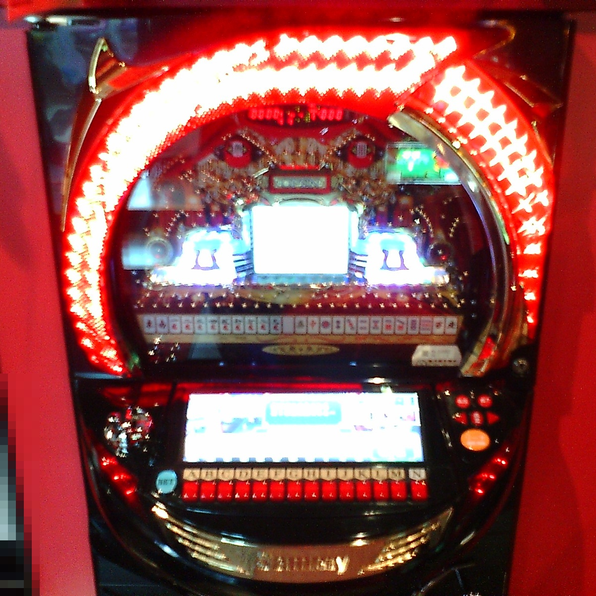 Dream Jong Vegas, by Sammy (jawp), it is a jankyu (jawp).